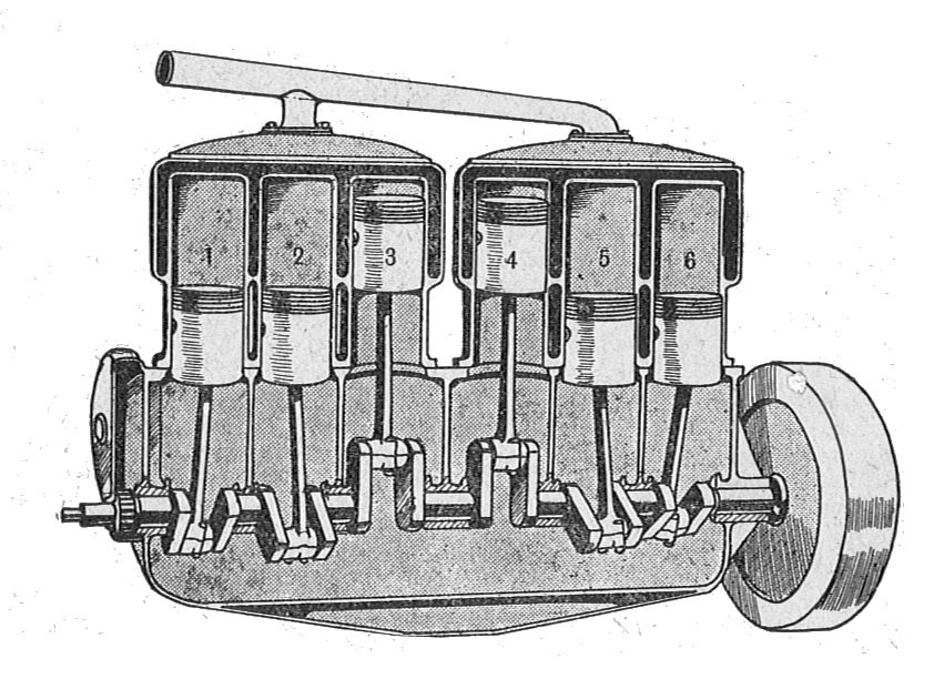 Six cylinder engine with three cylinder blocks (Autocar Handbook, Ninth edition).jpg